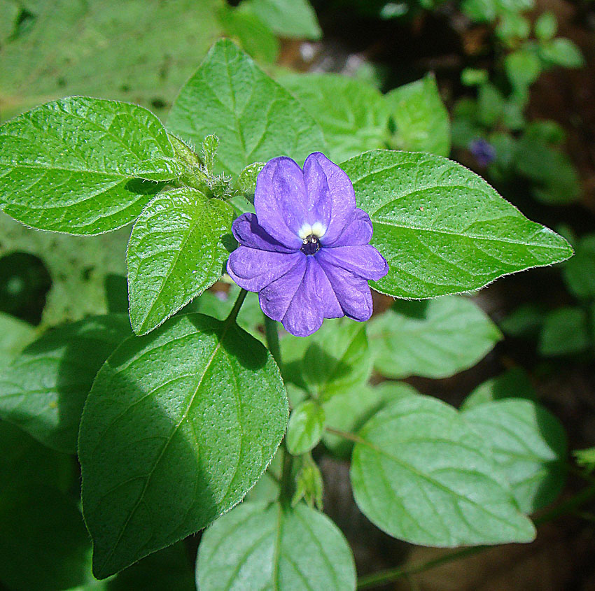 Also known as the Jamaican Forget-me-not with a range from Mexico and the Caribbean to Bolivia. Photo from Santa Elena Reserve, Costa Rica. In context at